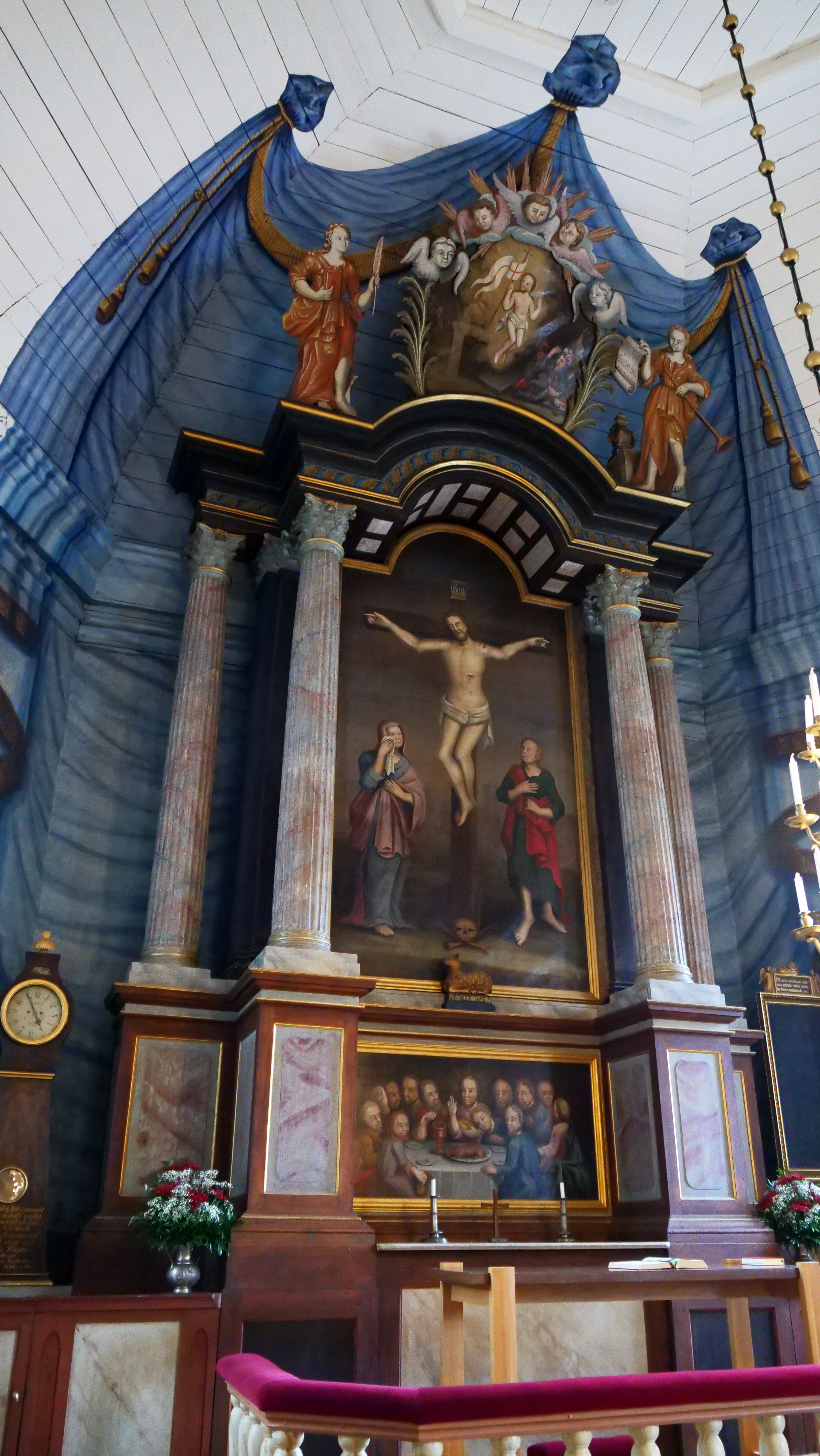 The main altar of the Piikkiö Church.